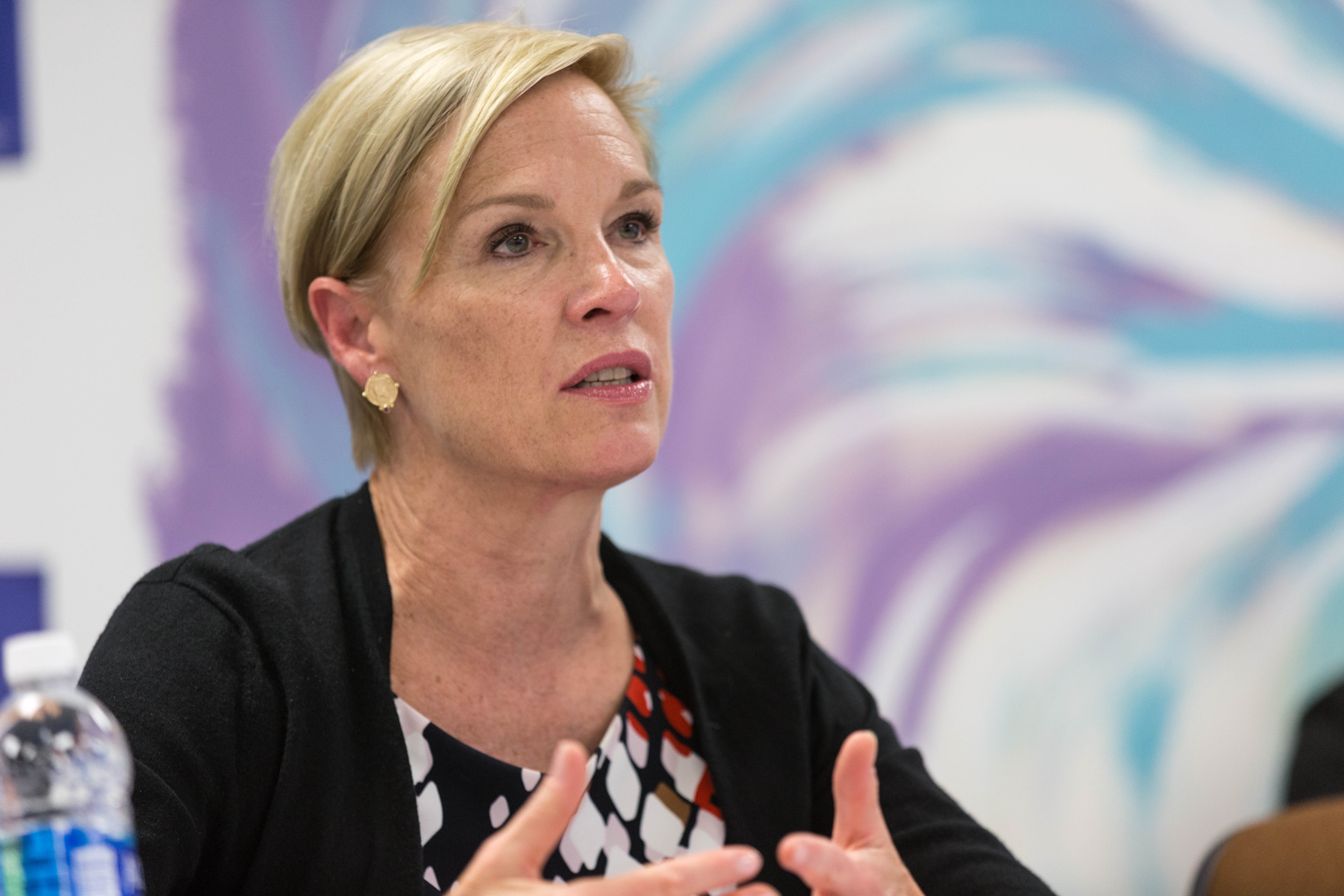 Cecile Richards, President of Planned Parenthood Federation of America and Planned Parenthood Action Fund, speaking at a women's roundtable at Hillary for Minnesota Headquarters in St Paul, MN